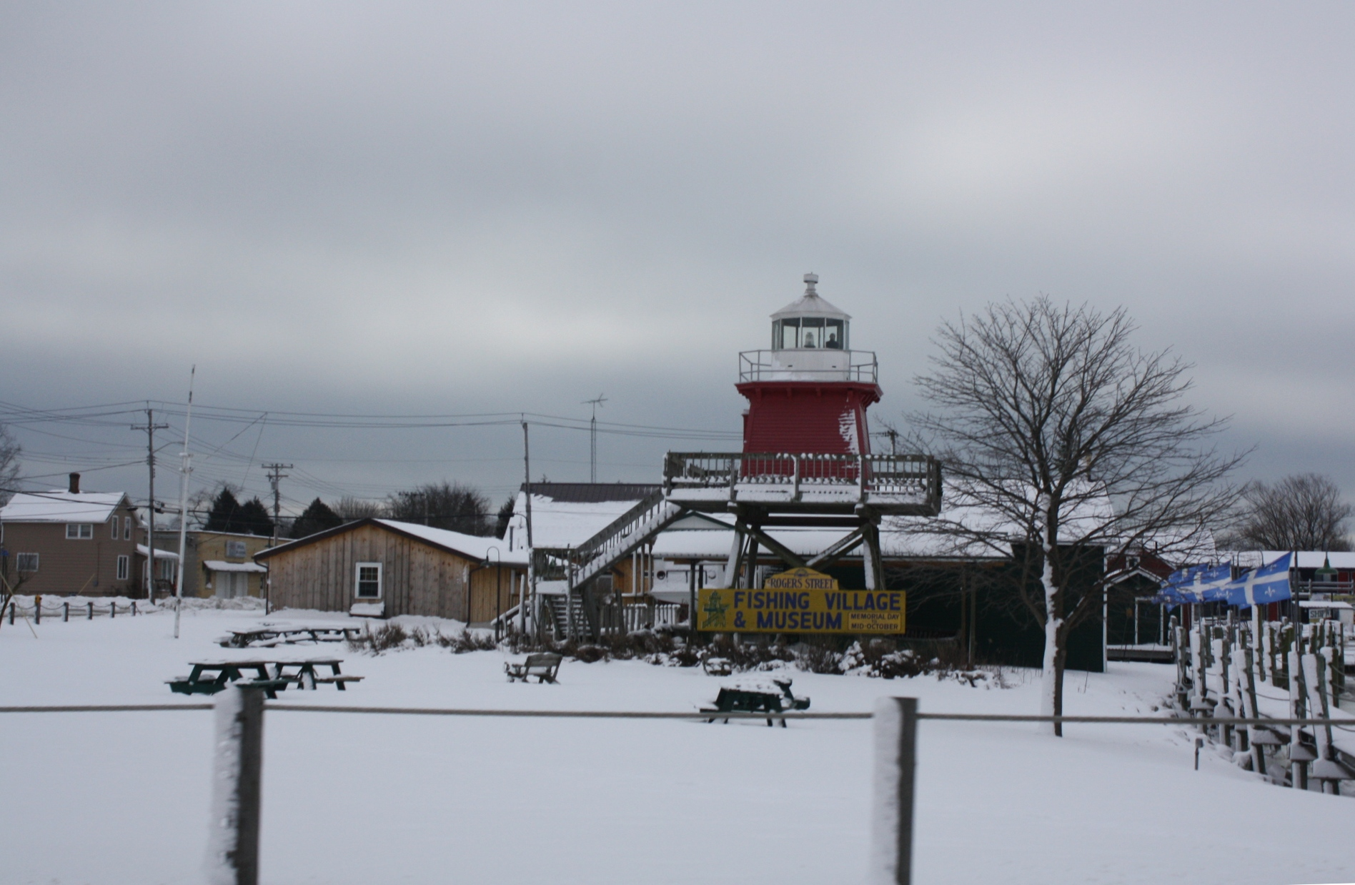 Looking south at the Rogers Street Fishing Village and Museum in Two Rivers, Wisconsin. It is listed on the National Register of Historic Places as the Frenchside Fishing Village. Taken from a bridge on Wisconsin Highway 42.